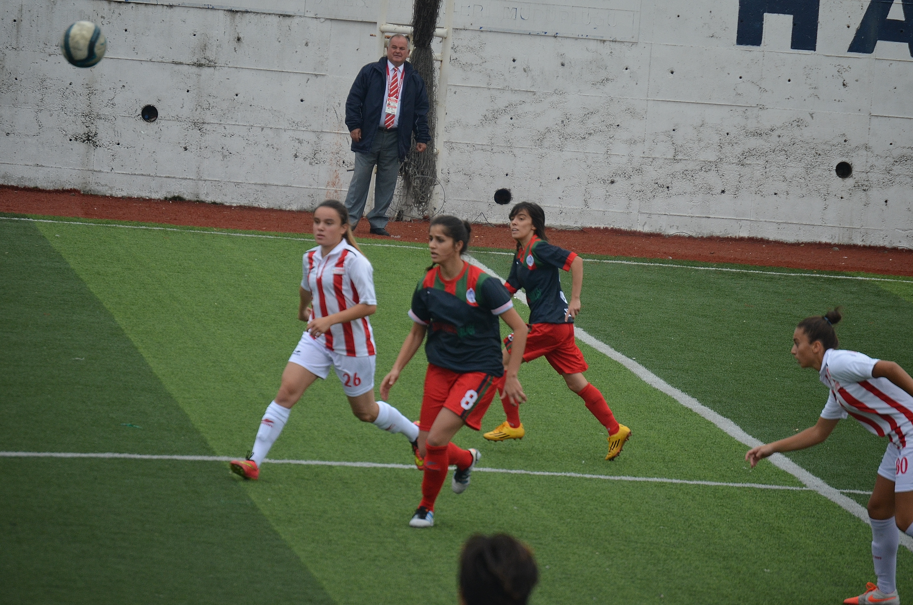 Bahar Kol (#8) playing for Karşıyaka BESEM Spor in the 2014-15 season.